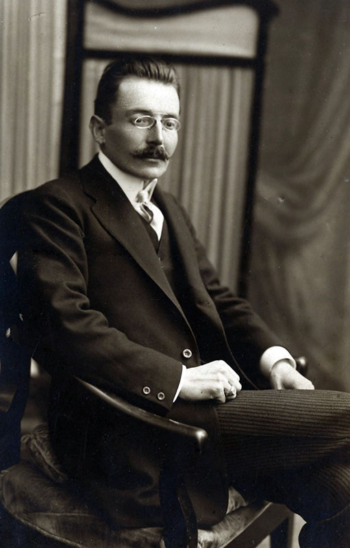 Portrait of Ludovic Dauș, postcard.